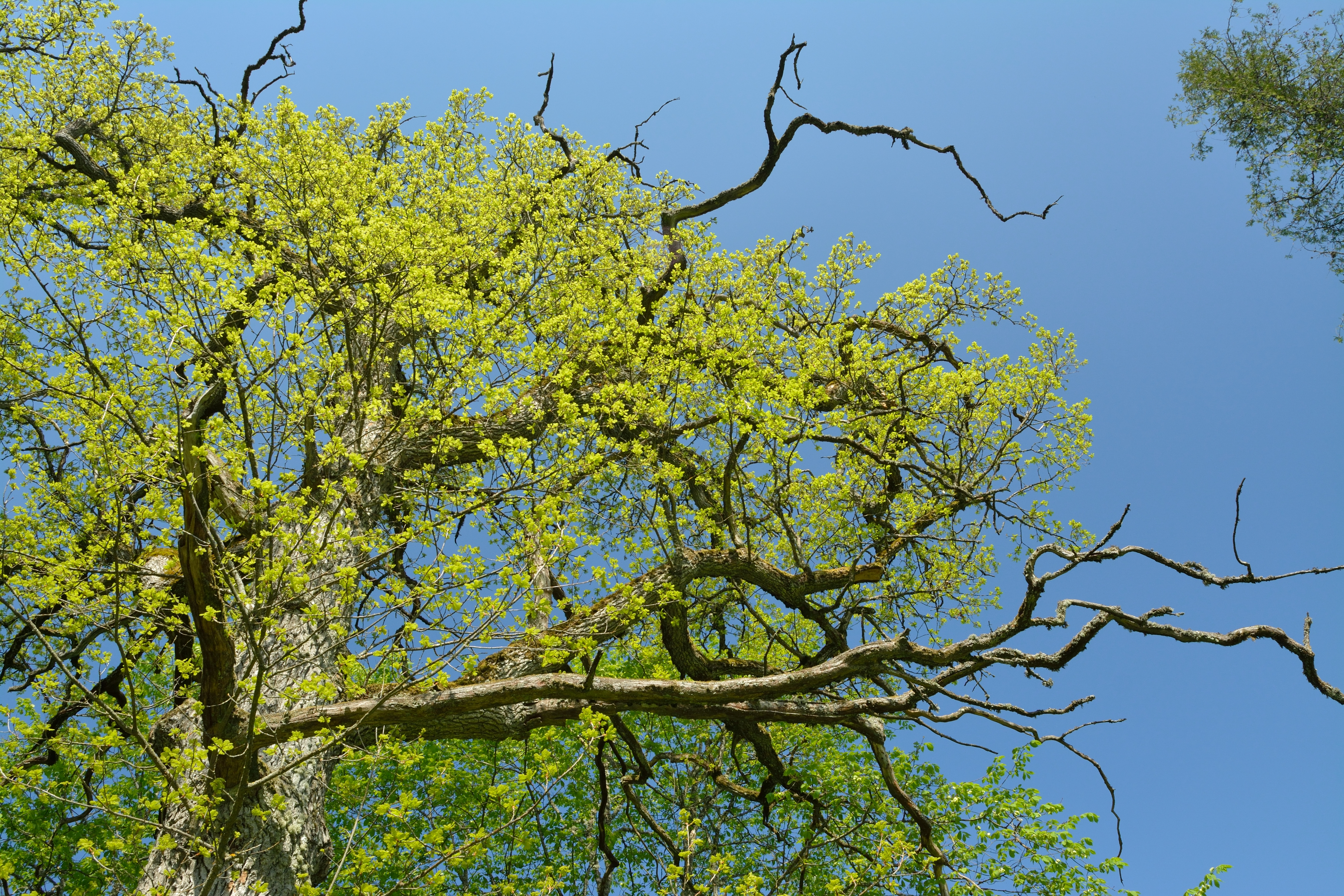 Salla manor park